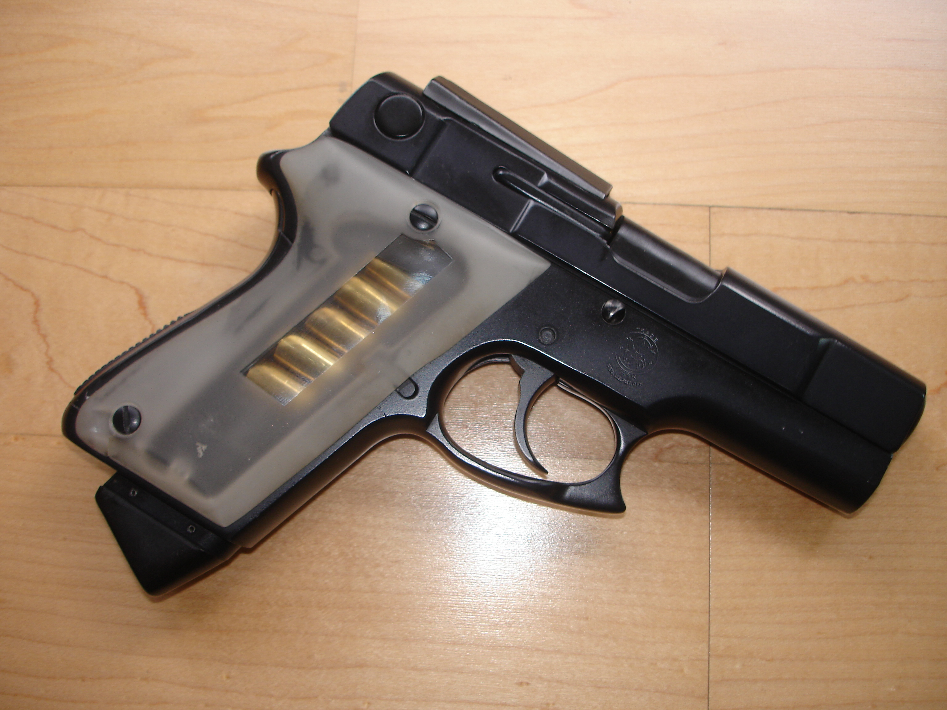 S&W ASP 9mm